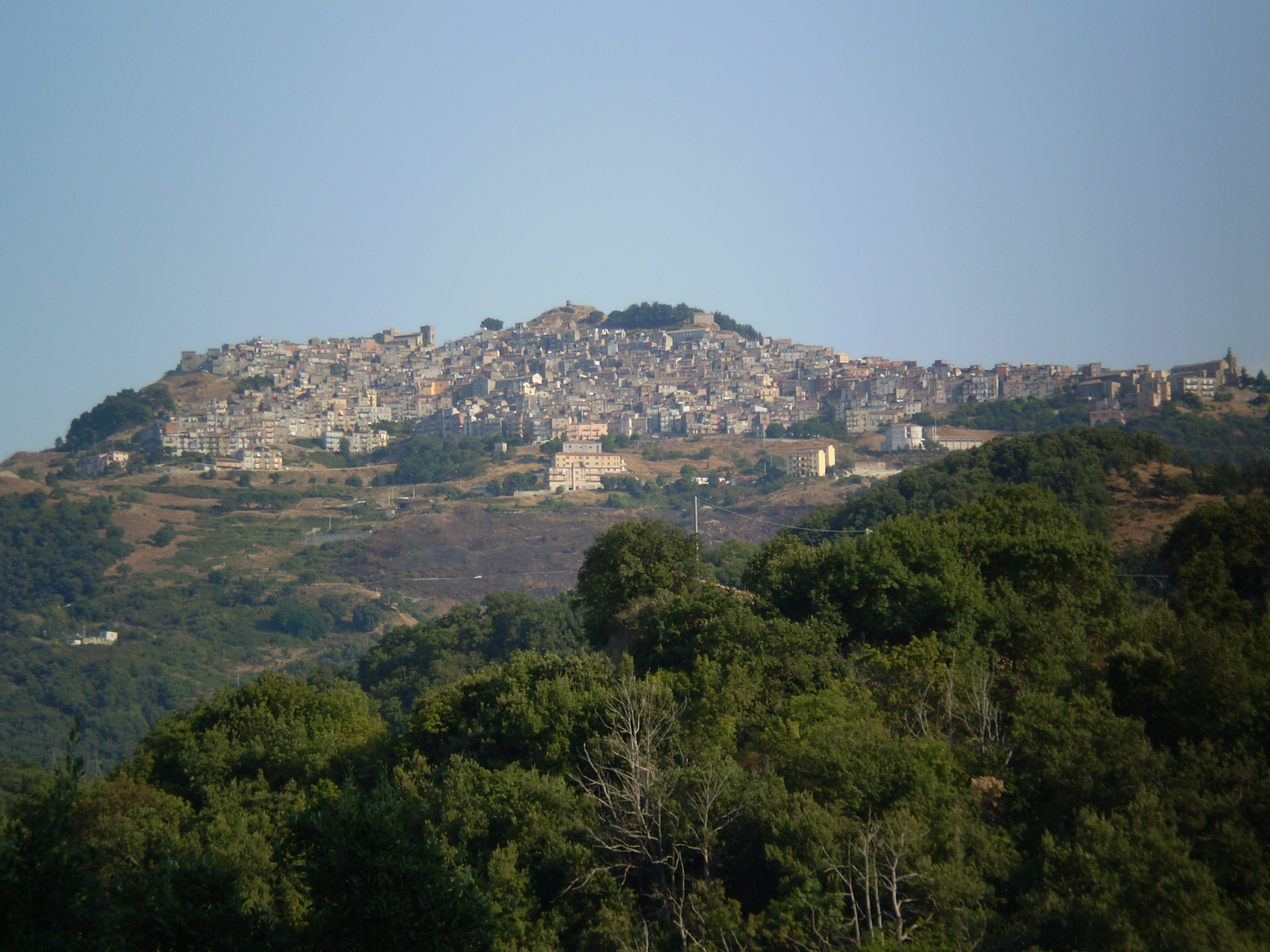 San Mauro Castelverde: Panorama